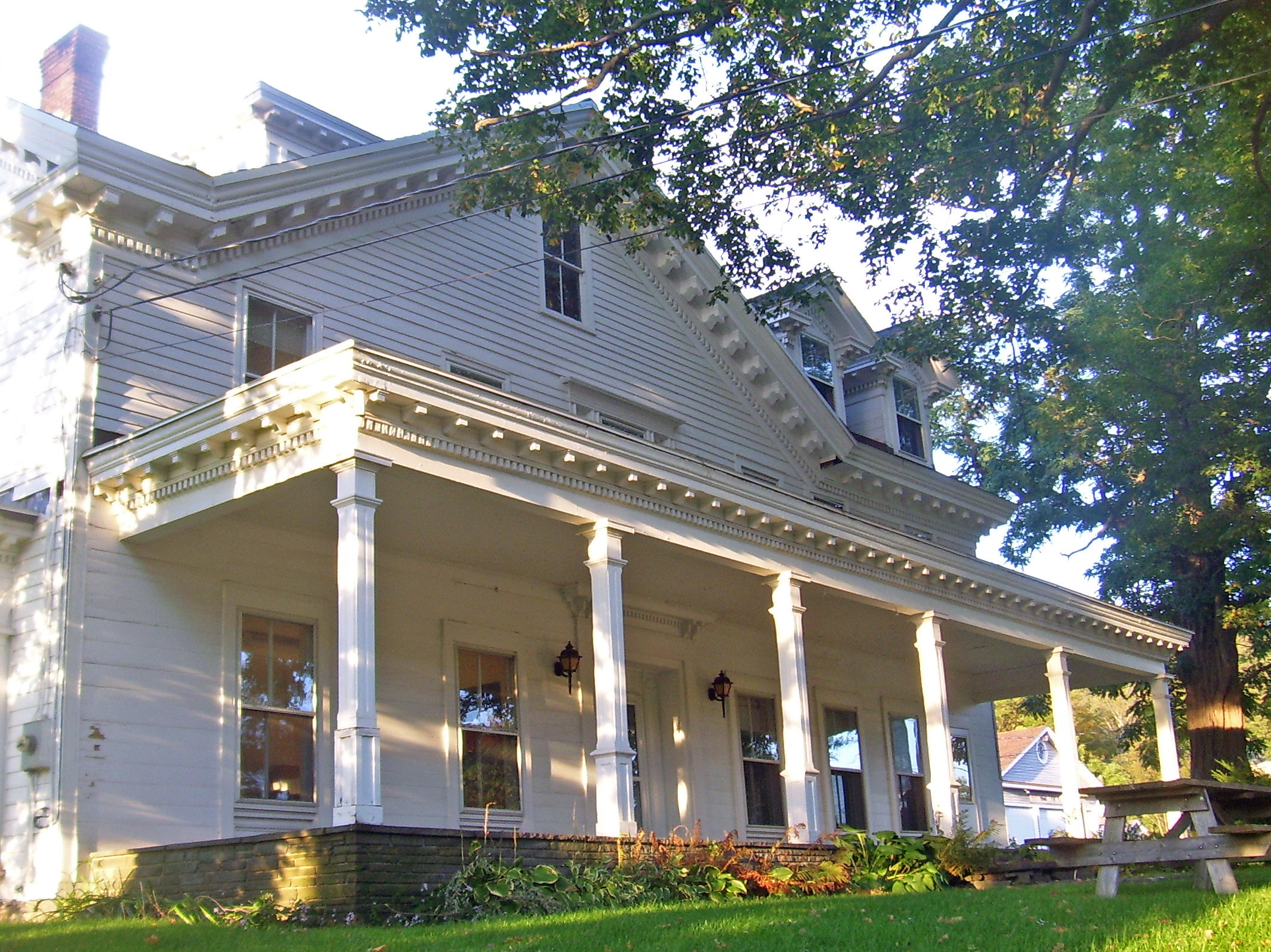 Erpf House, Arkville, NY, USA, home of the Catskill Center for Conservation and Development